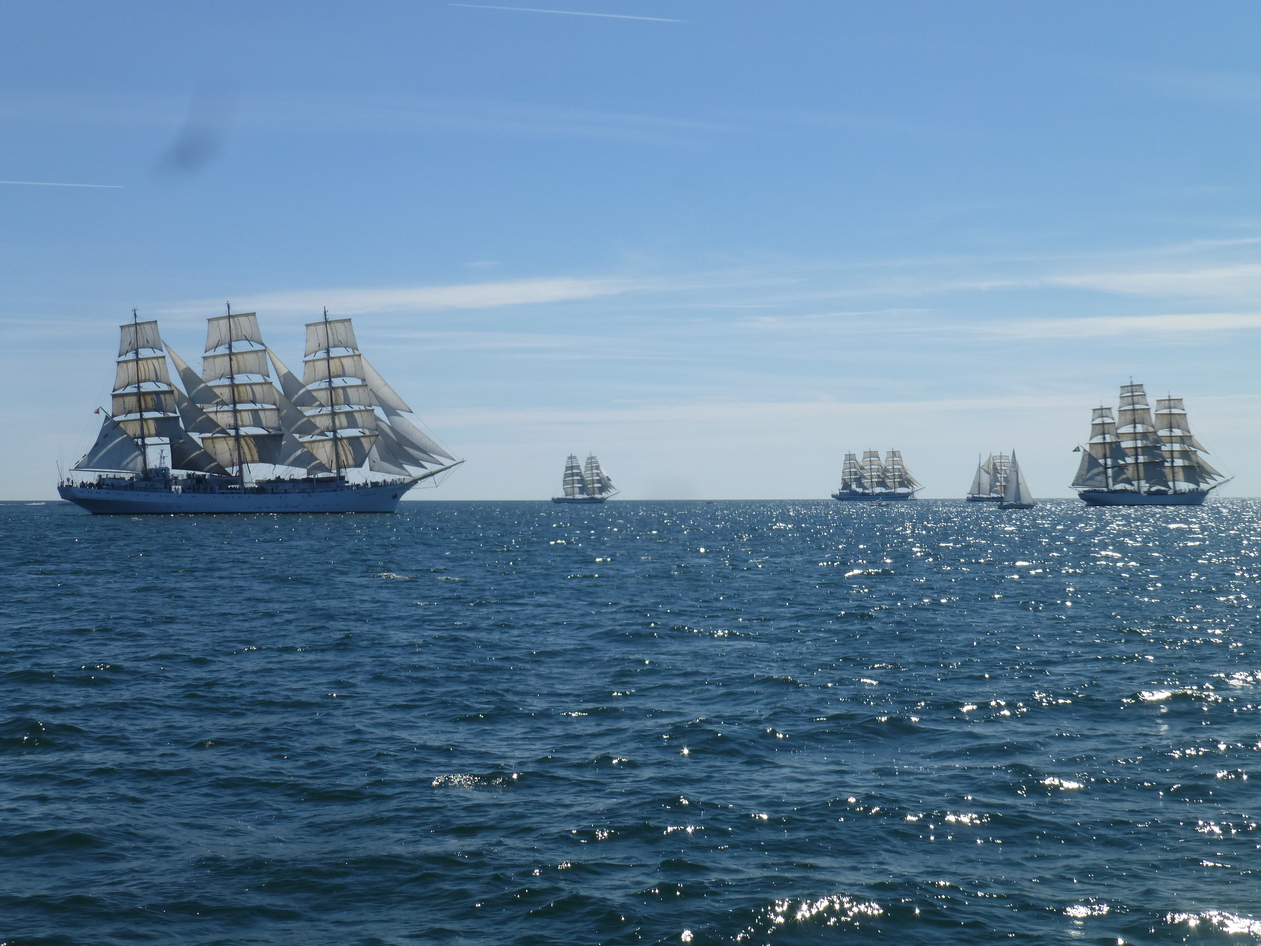 Start of the race of the Tall Ship' Races 2017 between Turku and Klaipeda.